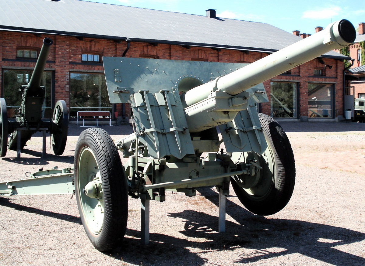 Polish wz. 29 Schneider 105 mm gun, displayed in Hämeenlinna Artillery Museum. Photo taken on June 18, 2006. Source: Photo by me, User:Balcer.